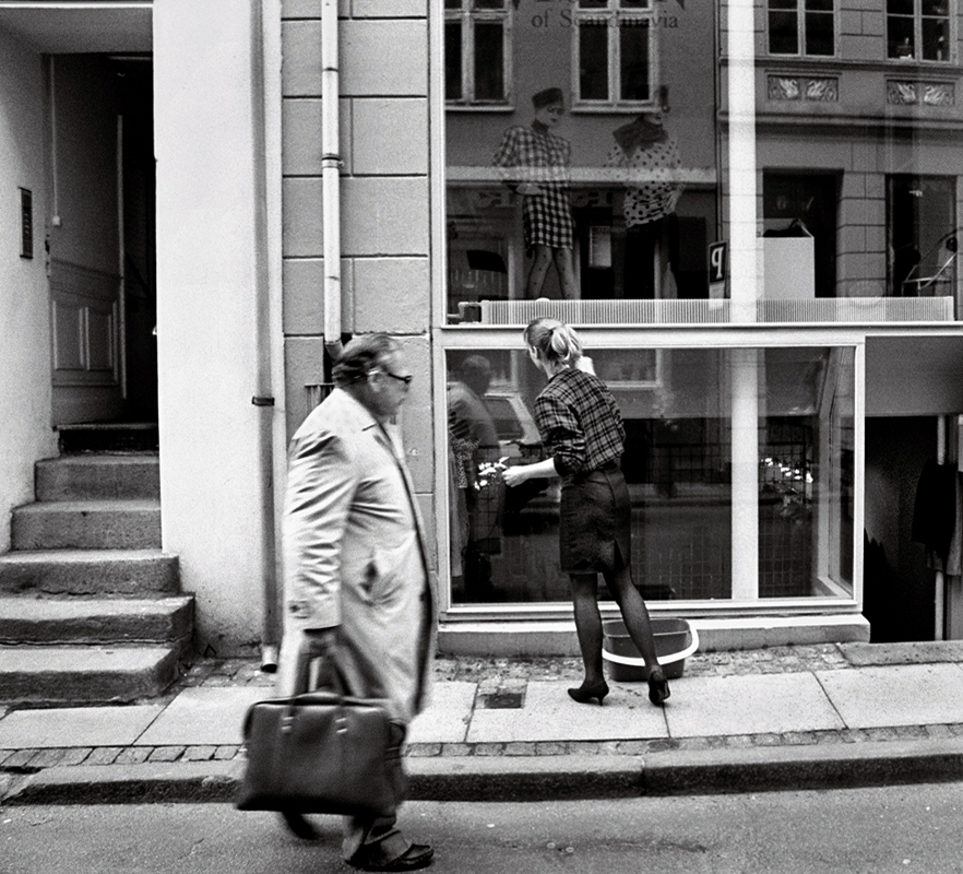 Copenhagen 1987.